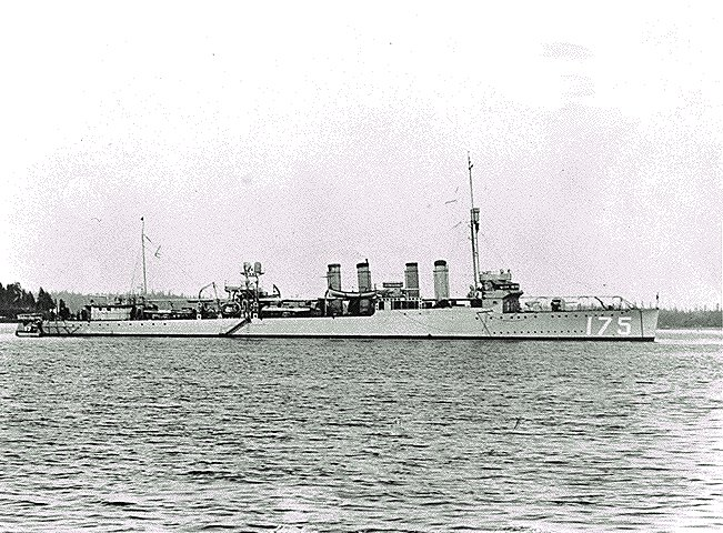 The U.S. Navy destroyer USS MacKenzie (DD-175) anchored in a U.S. West Coast harbour, circa 1920-1922.